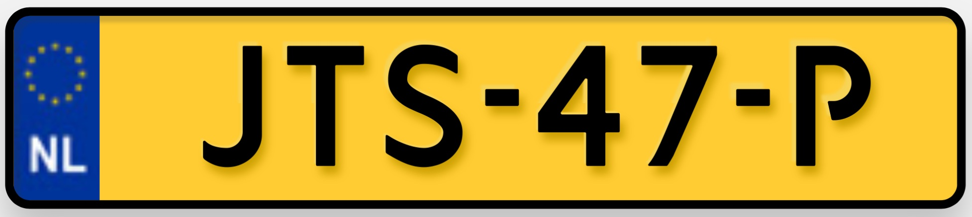 Current series dutch license plate (August 2020)